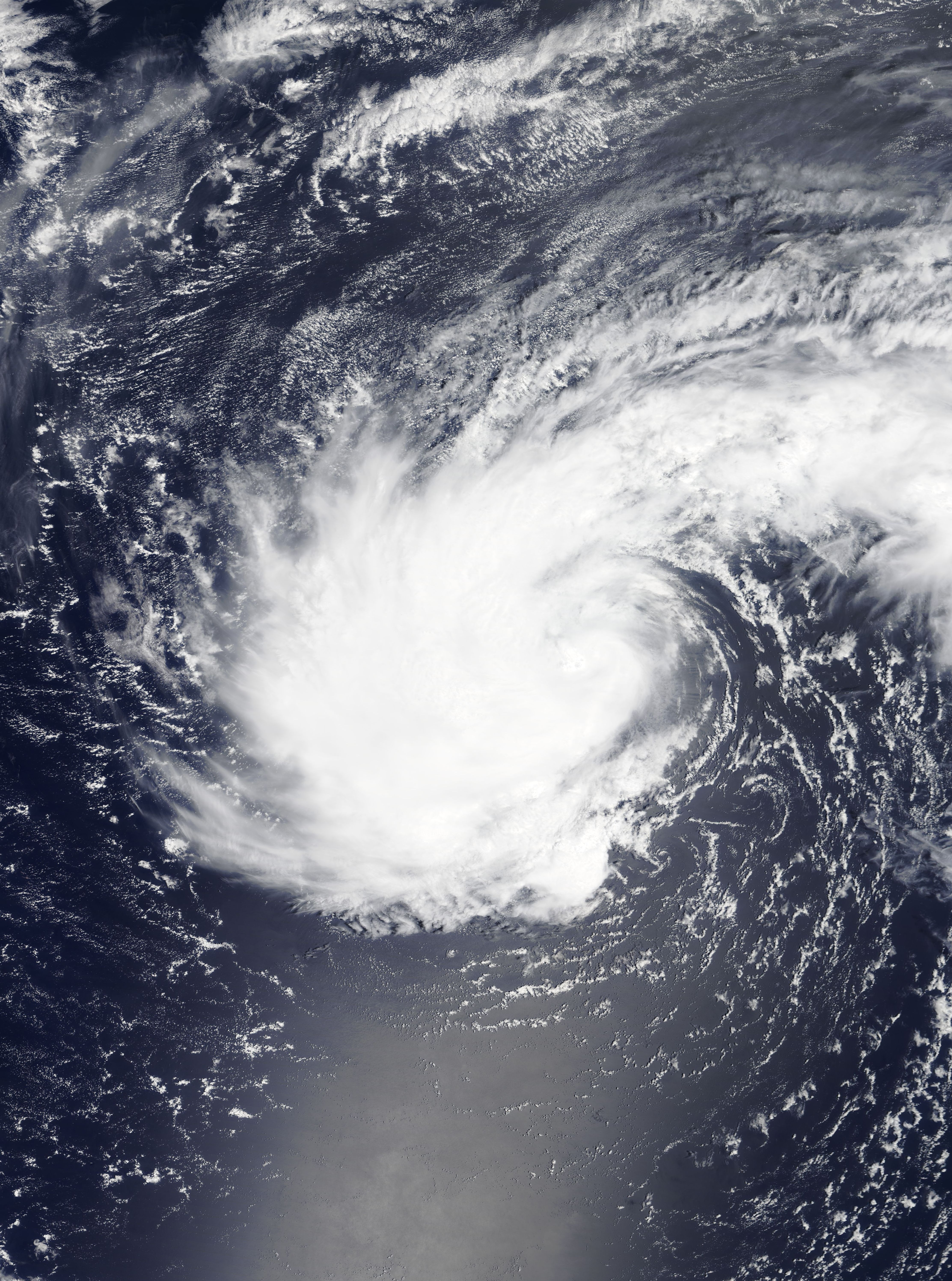 A satellite image of Tropical Storm Kulap over the Pacific Ocean. The maximum sustained winds are 35 knots.